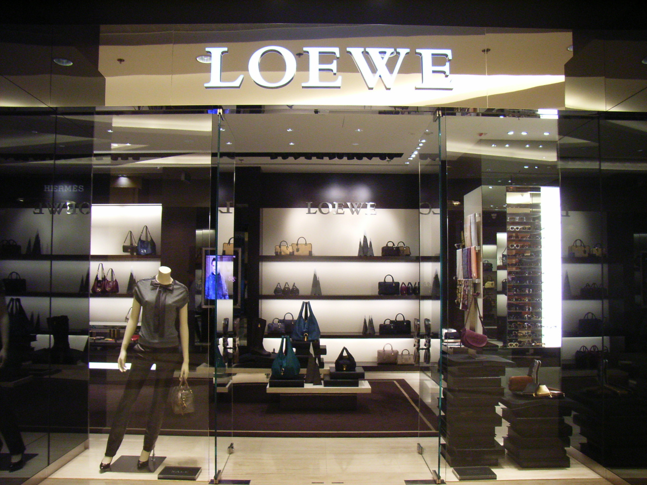 西九龍Union Square圓方商場